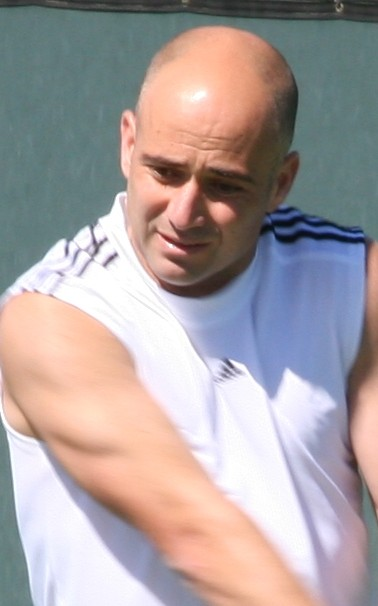 Andre Agassi in Indian Wells in 2006